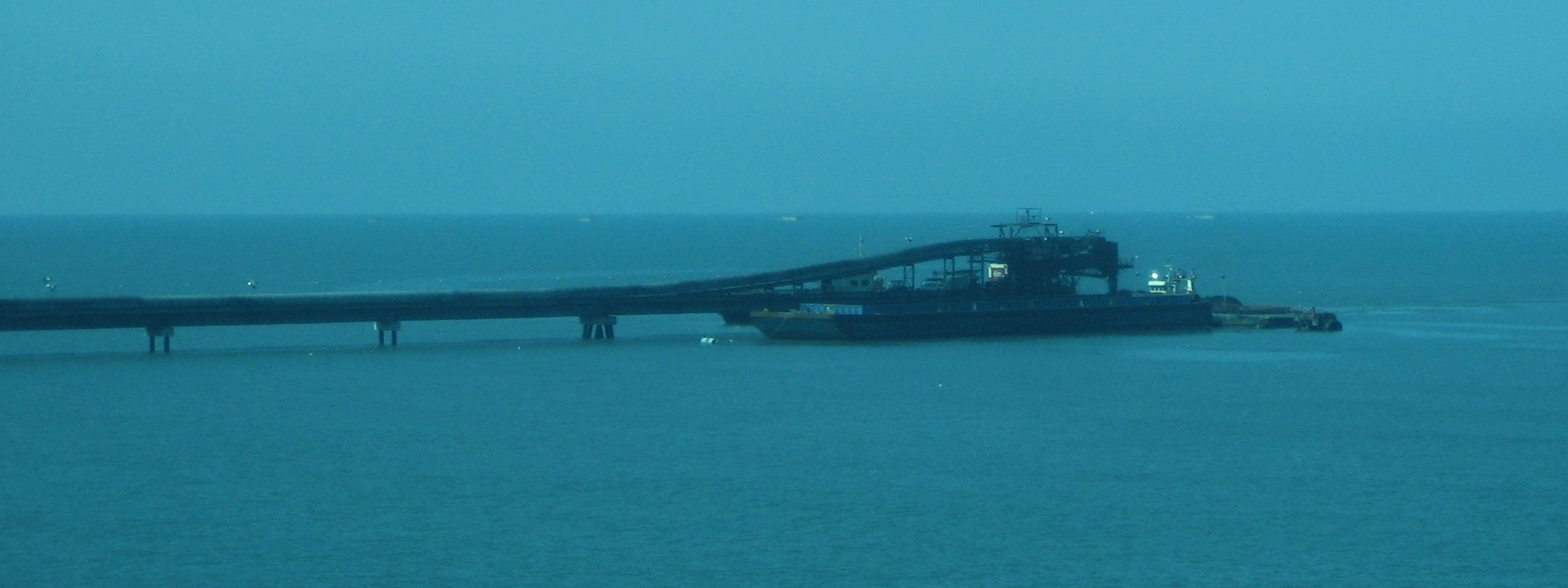 Image of Drummond Conveyor belt for coal - near Santa Marta, Colombia